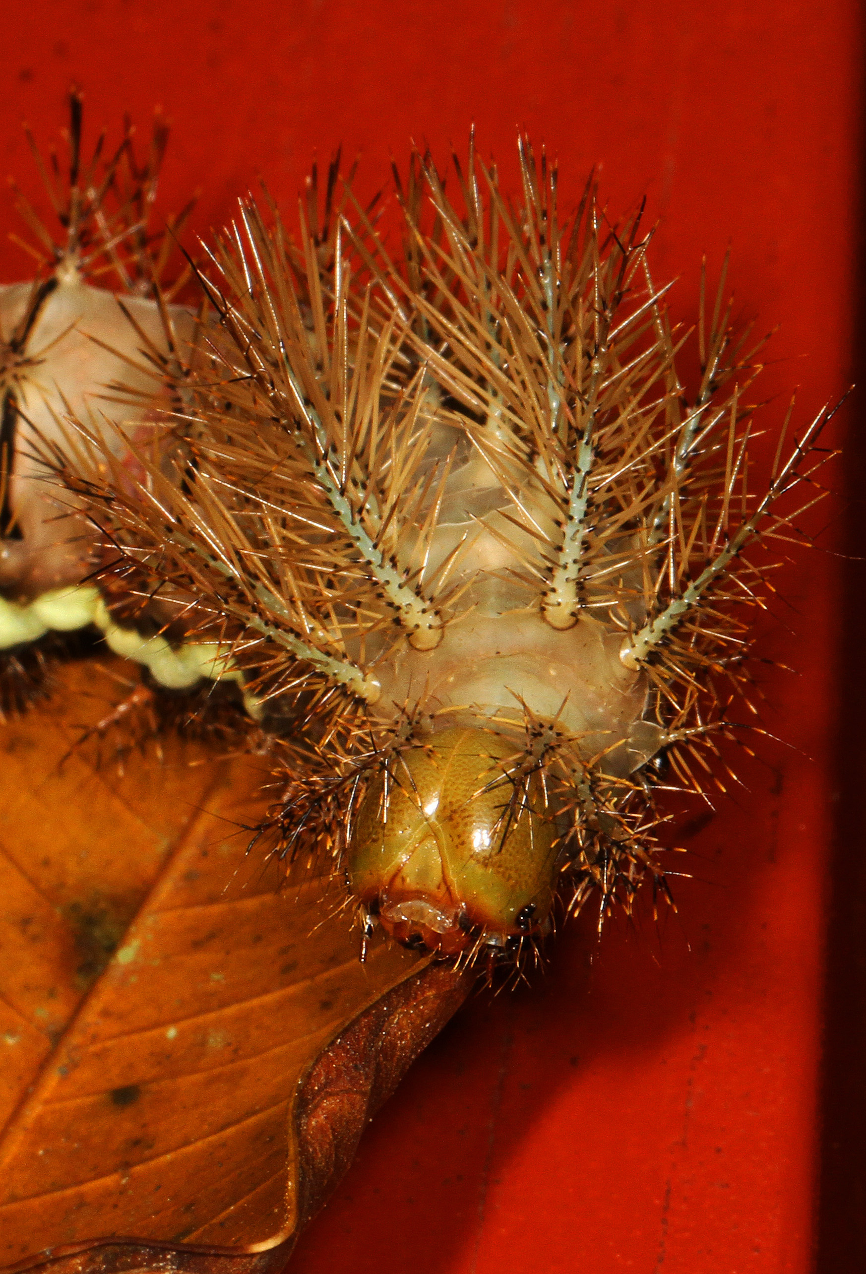 Saturn Moth caterpillar - Automeris egeus, Caves Branch Jungle Lodge, Armenia, Belize